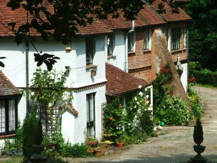 From English Wikipedia: The house known as Chewton Mill House in Highcliffe, Dorset, England. This is where it is claimed that Gerald Gardner was initiated into what he first called 'the witch cult' and has developed into Gardnerian Wicca and its many offshoots. Photo taken by me, Kim Dent-Brown, on 23rd June 2005 with a Fuji Finepix S5000 camera.